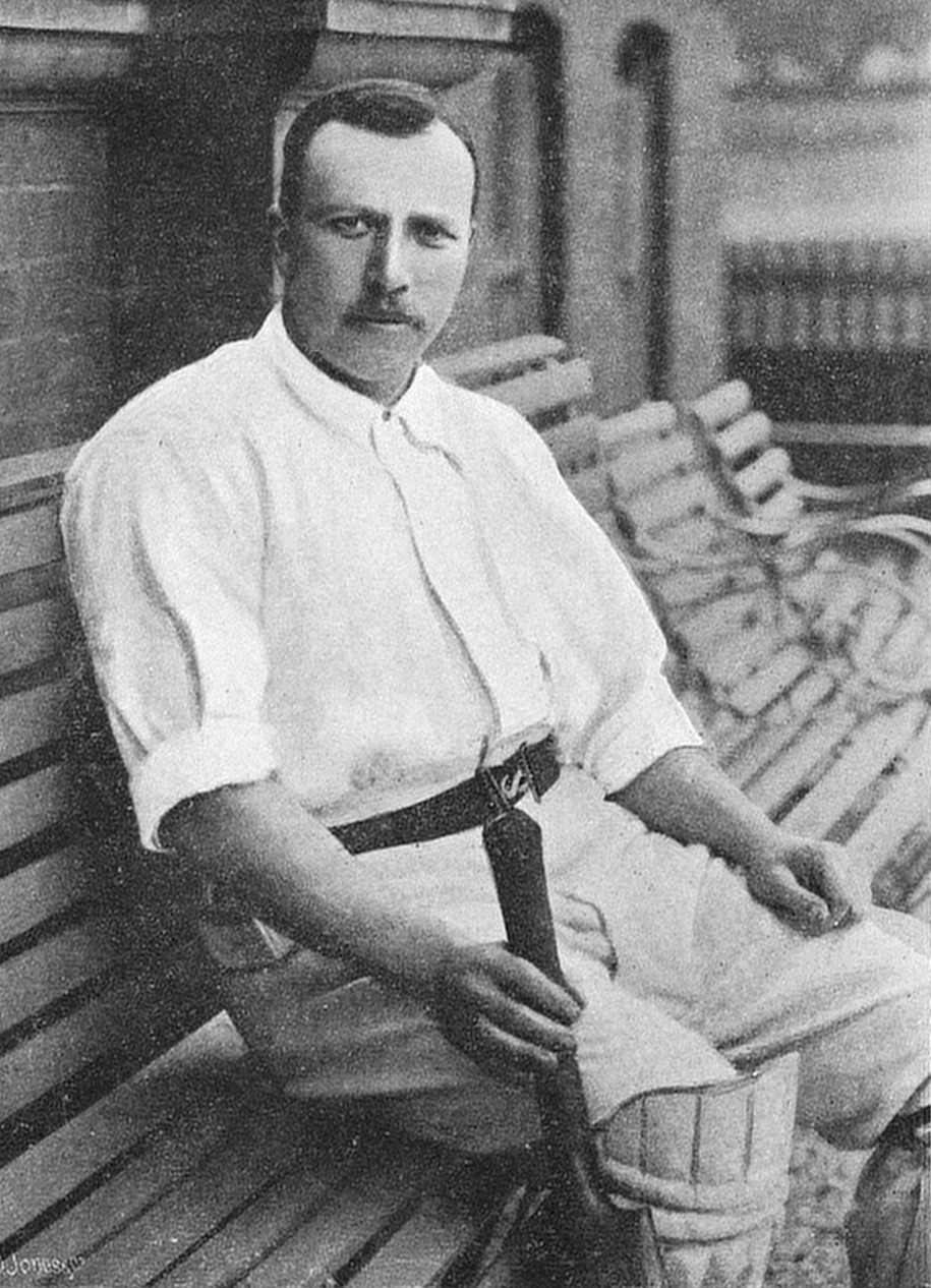 Scan of cricketer Harry Bagshaw